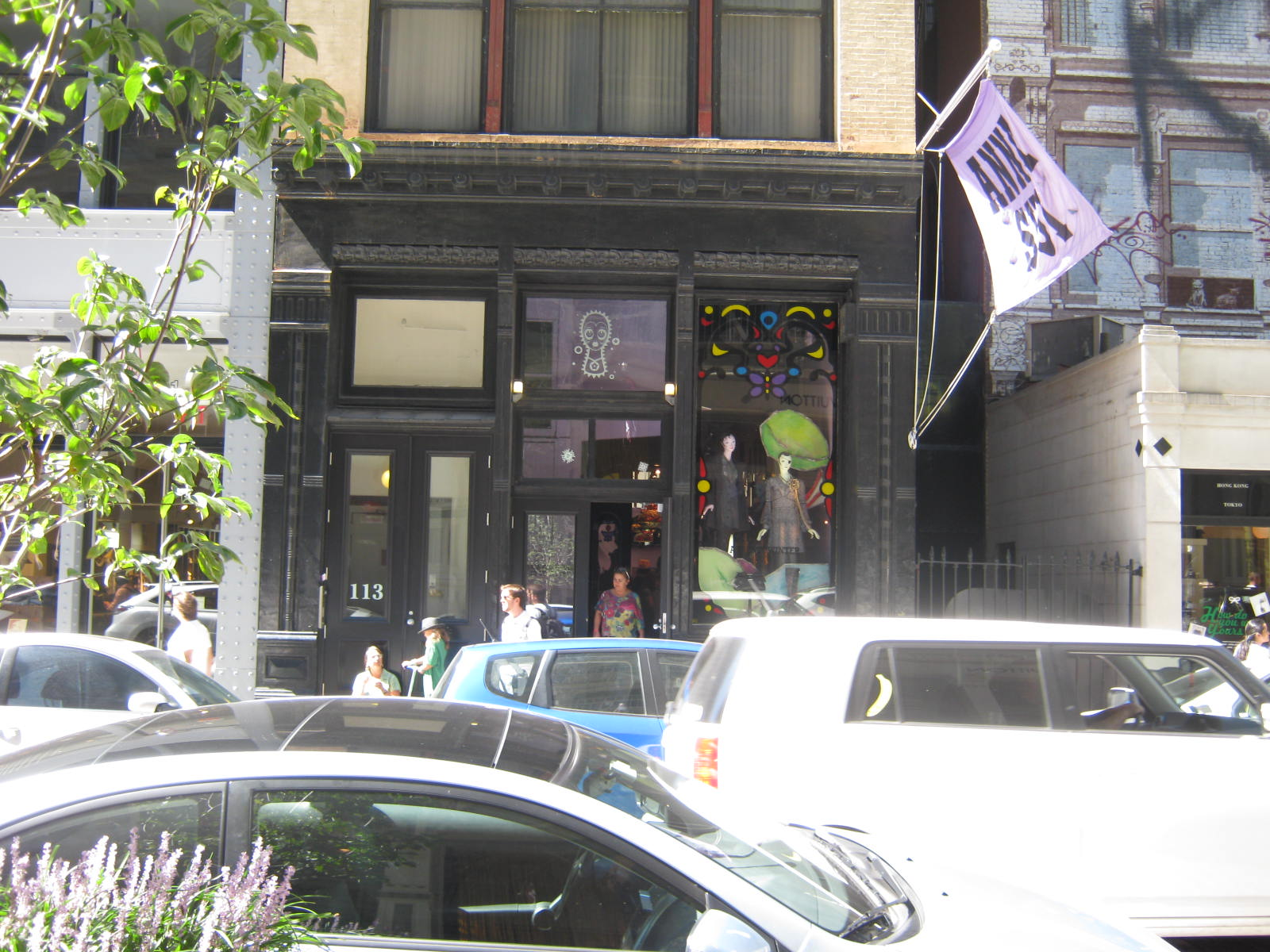 The Anna Sui store at Greene Street, Soho, Manhattan.